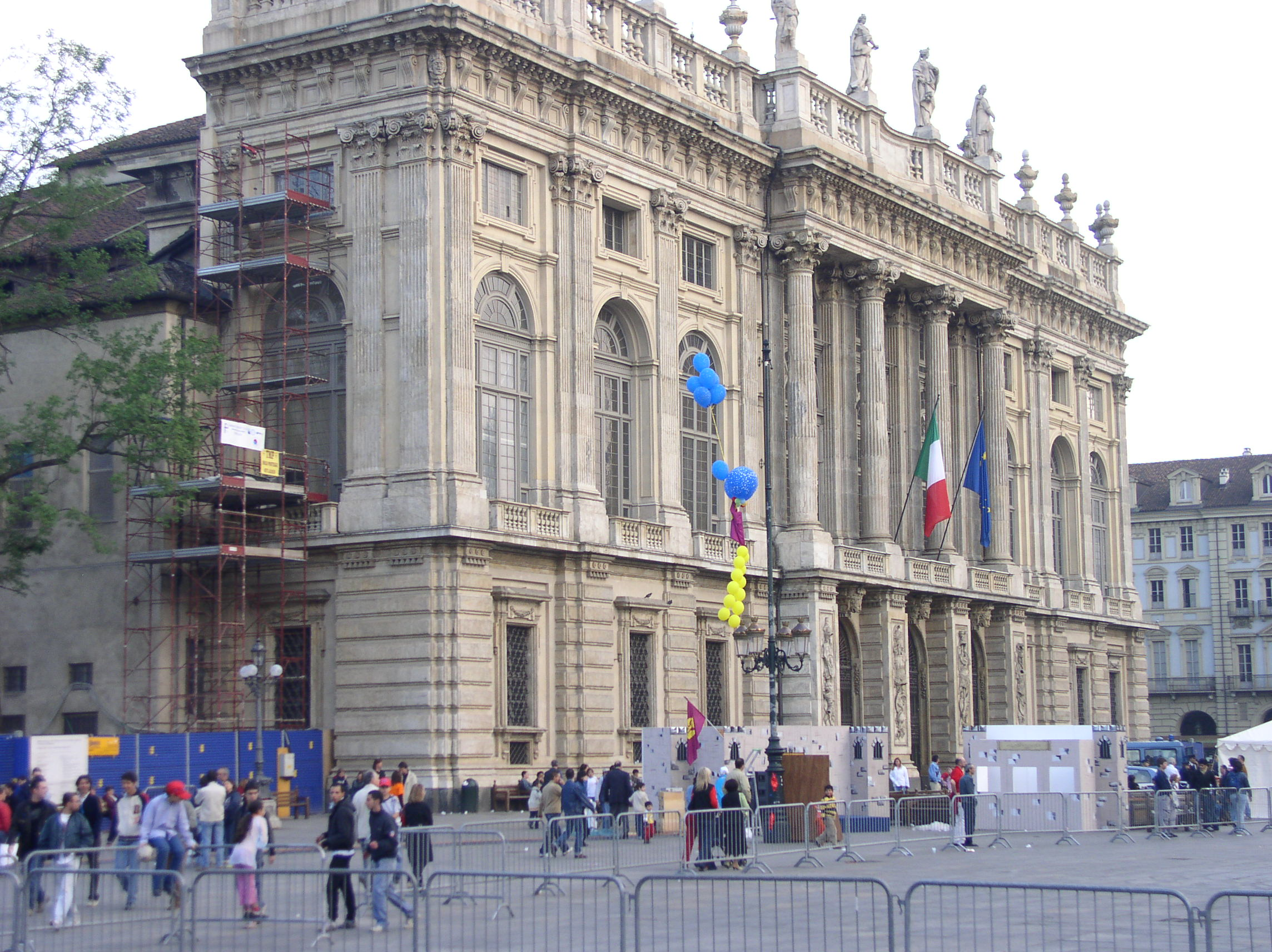 I, author of this picure, hereby certify to licence the use of it under the Free Documentation Licence. The picture shows Piazza Castello in the city of Torino, Italy, in May 2005.